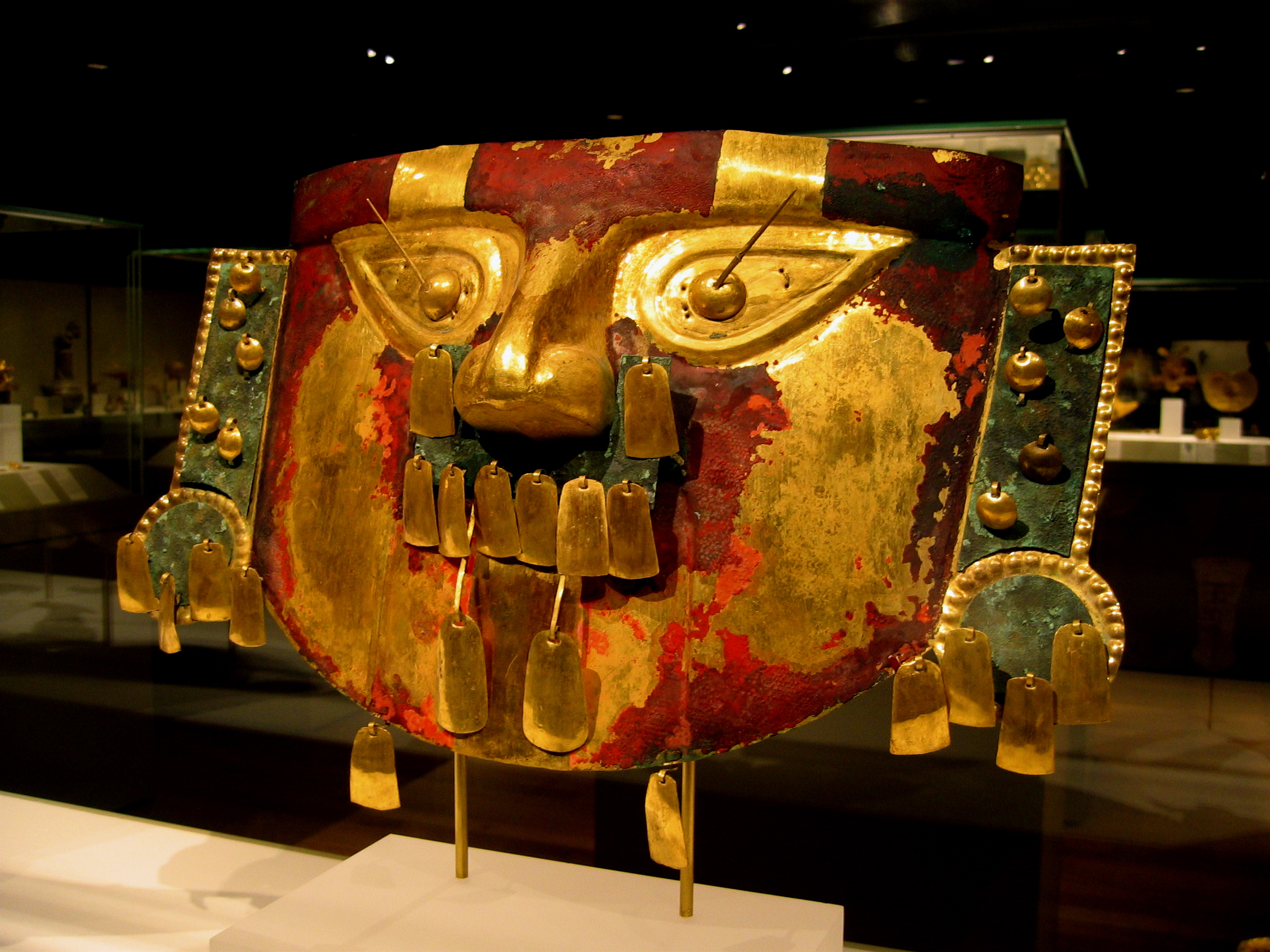 Metropolitan Museum of Art, NYC. Funerary Mask, 9th-11th century Peru; (Lambayeque) Hammered gold with cinnabar and copper overlays, cinnabar; H. 11 1/2 in. (29.2 cm) Gift and Bequest of Alice K. Bache, 1974, 1977 (1974.271.35) A powerful dynasty of northern Peruvian religious leaders grew wealthy and proud between the ninth and the eleventh centuries, ostentatiously amassing riches in gold. Builders of the great funerary complexes at Batan Grande adjacent to the Lambayeque Valley, the lords of Lambayeque were compulsive horders of gold objects that bore the image of what may have been their legendary dynastic founder. At death, the lords were buried with their golden treasures. Large masks, such as that illustrated here, were among these mortuary offerings. As many as five masks could be placed into one burial, one attached to the head of the textile-wrapped body and the other four stacked a the feet of the deceased. The masks vary in thickness, metal composition, and surface embellishment. The cinnabar-red paint that covers much of the cheeks and forehead of the mask seen here was most consistently used, but remnants of yellow, blue, black, and orange colors have also been identified. Feathers, too, were added for color; the pupils of some eyes were made of them. The eyes of this mask have thin, skewerlike projections emerging from the pupils, perhaps suggesting the expressive qualities of the eyes themselves. Further surface additions include the spangles or danglers that appear on the lateral ear projections and the larger ones that adorn the U-shaped nose ornament.